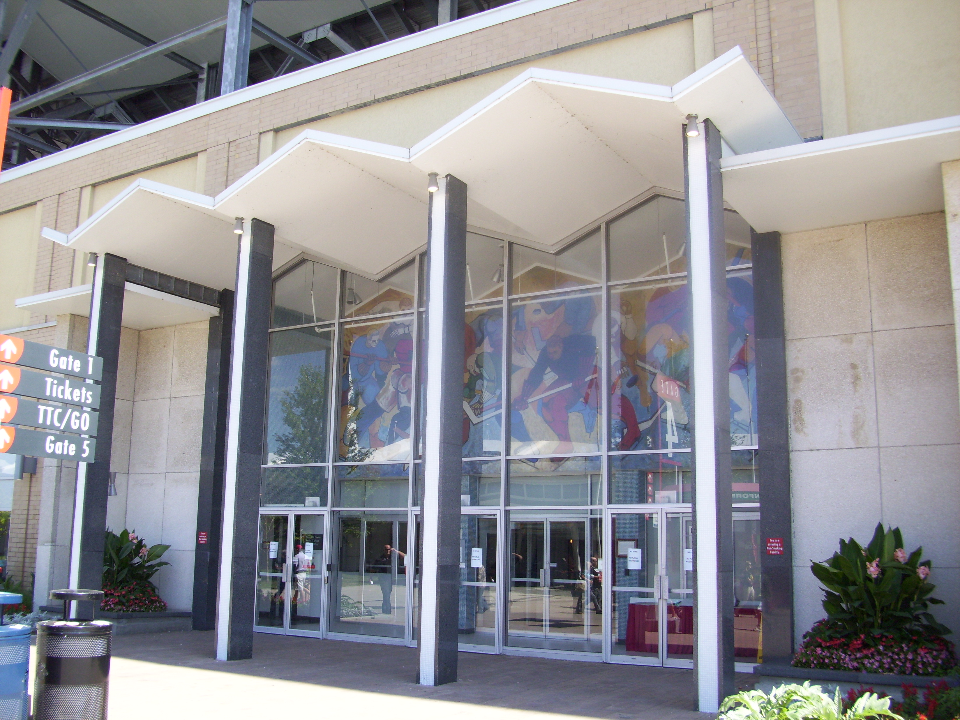 The preserved Canada Sports Hall of Fame facade, preserved as an entrance to BMO Field